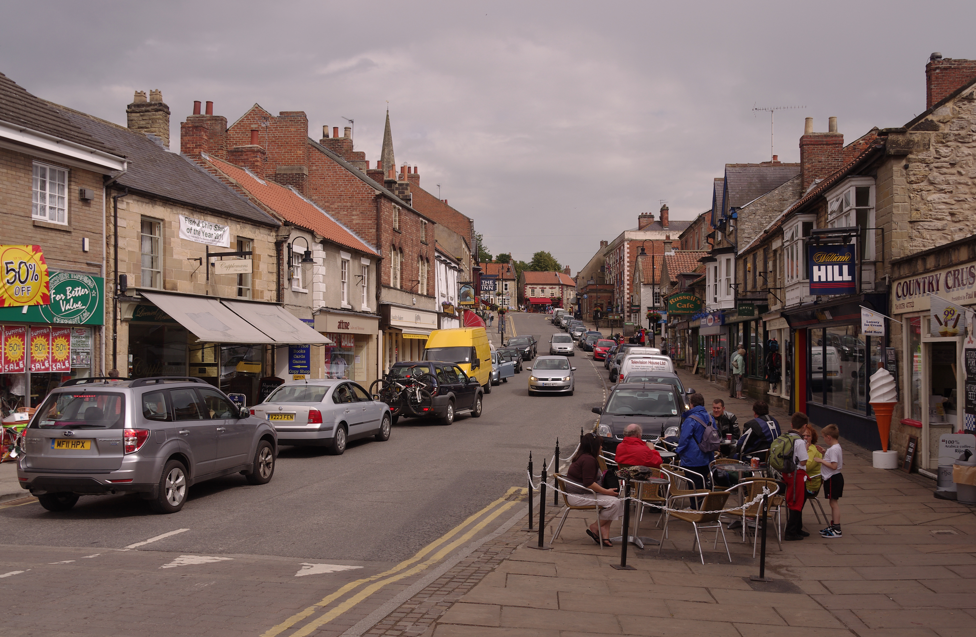 Pickering - Market Place